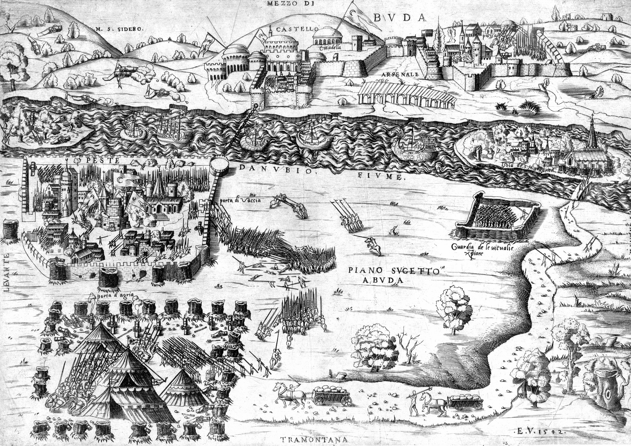 Siege_of_Pest_Enea_Vico_1542